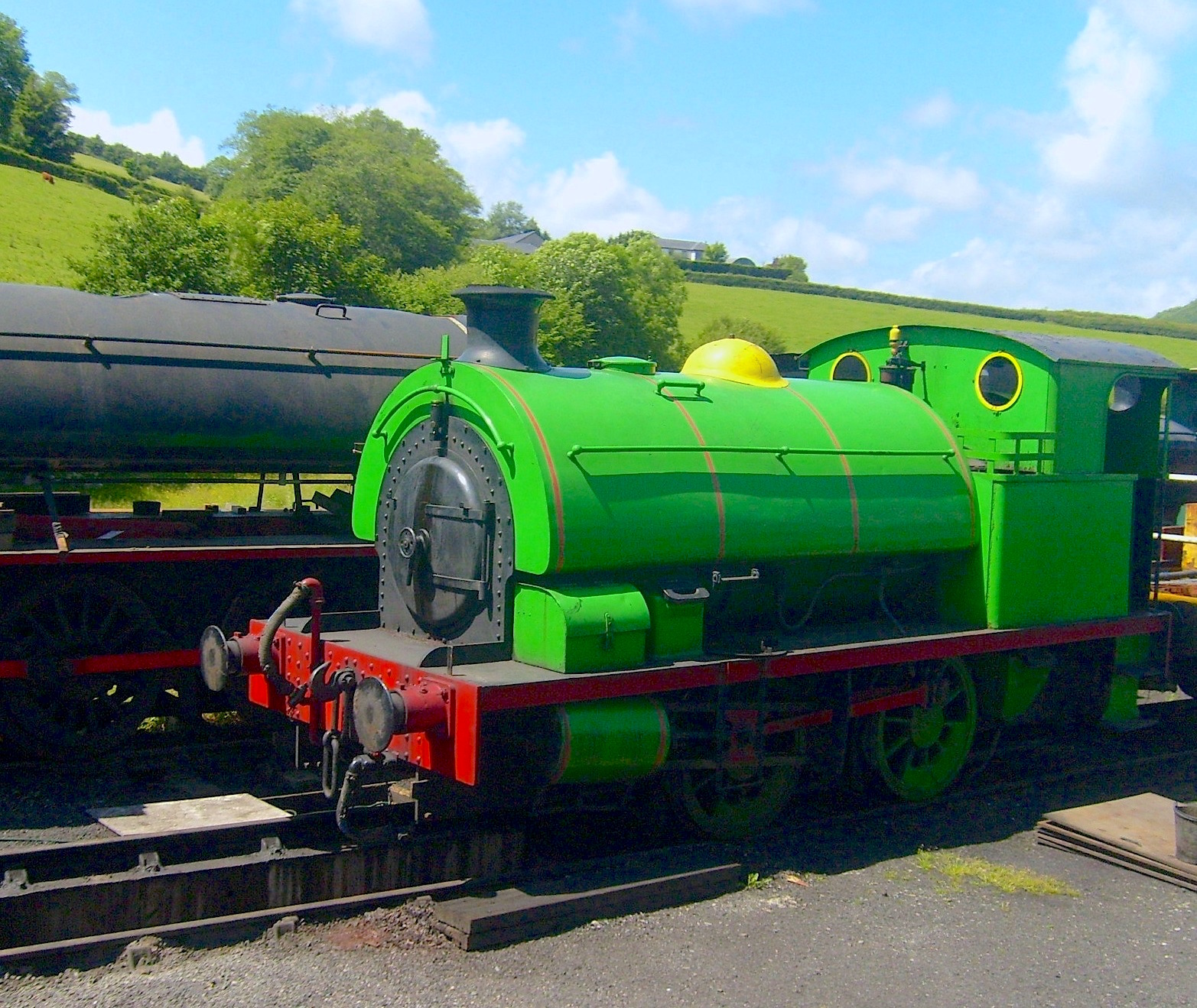 Peckett 0-4-0ST 'Olwen' in the yard at Bromwydd Arms